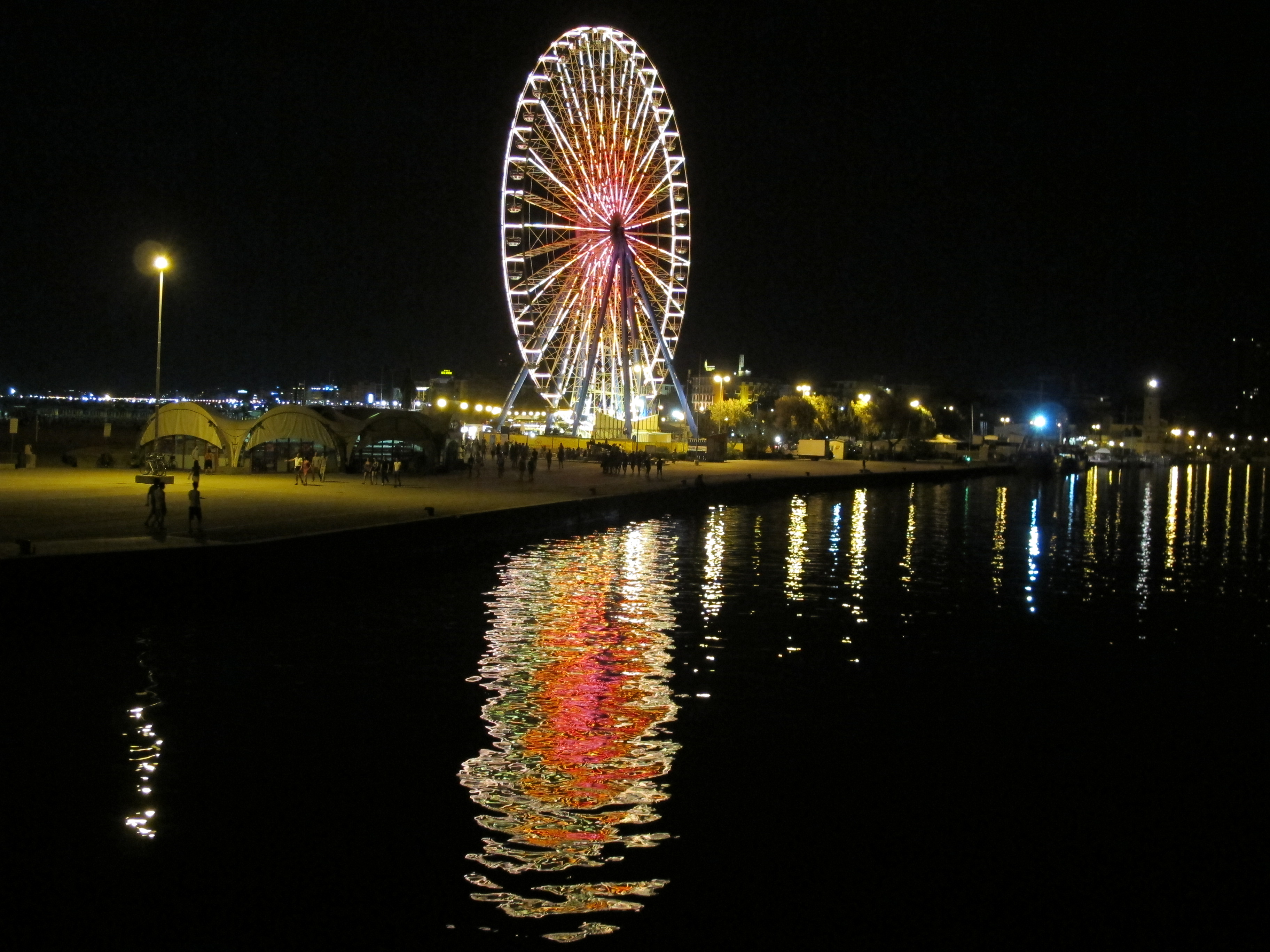 Ferris wheel in Rimini, Italy